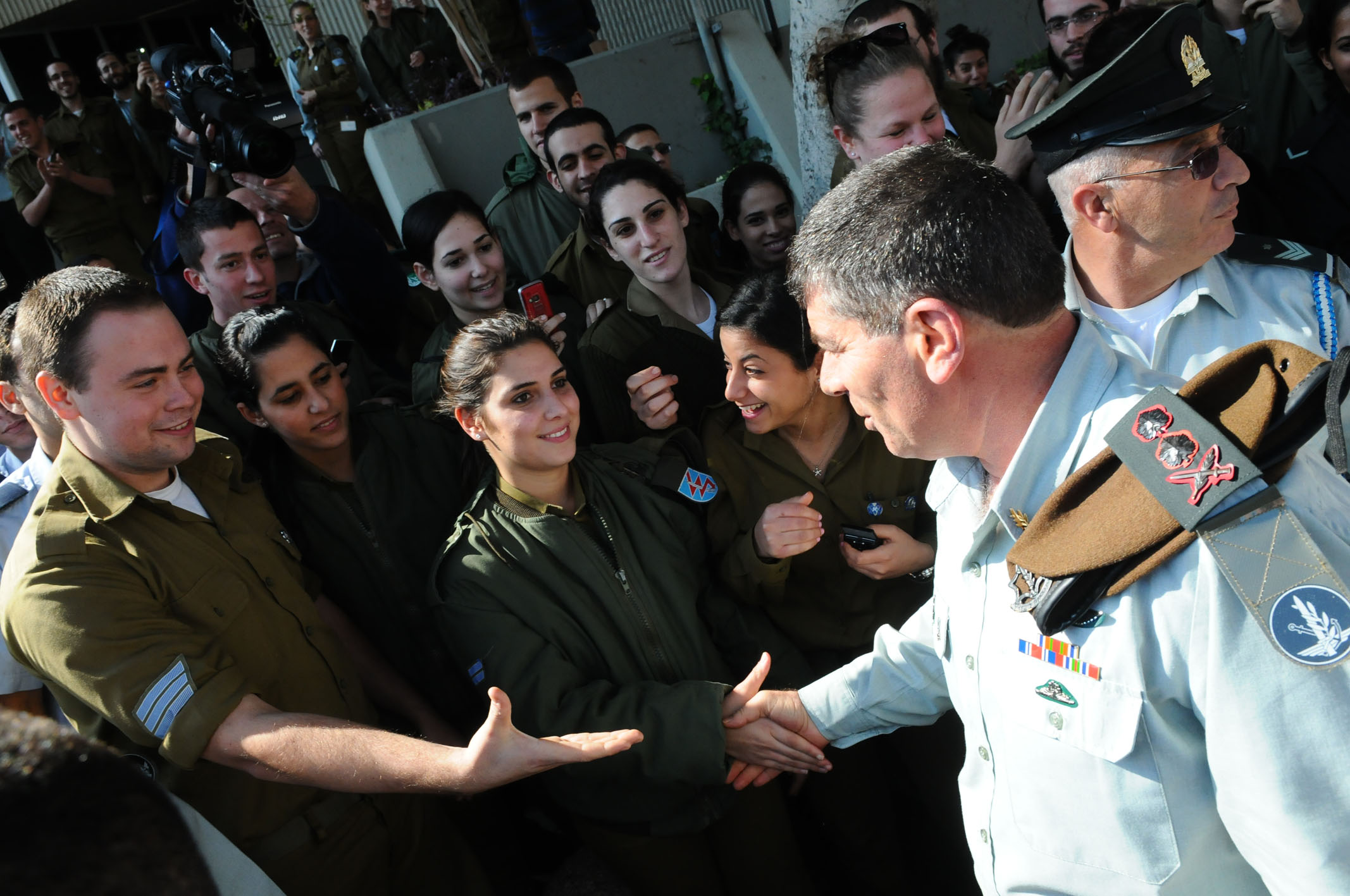 Newly former Chief of the General Staff, Lt. Gen. Gabi Ashkenazi leaves the IDF headquarters in Tel Aviv, greeting some of the soldiers he commanded during his four year tenure on his way out. For the last time as Chief of Staff, Lt. Gen. (now res.), Ashkenazi leaves his home base and prepares for civilian life. Featured as Photo of the Day on February 14, 2011.